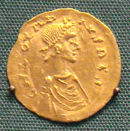 Clothaire_II_584_628